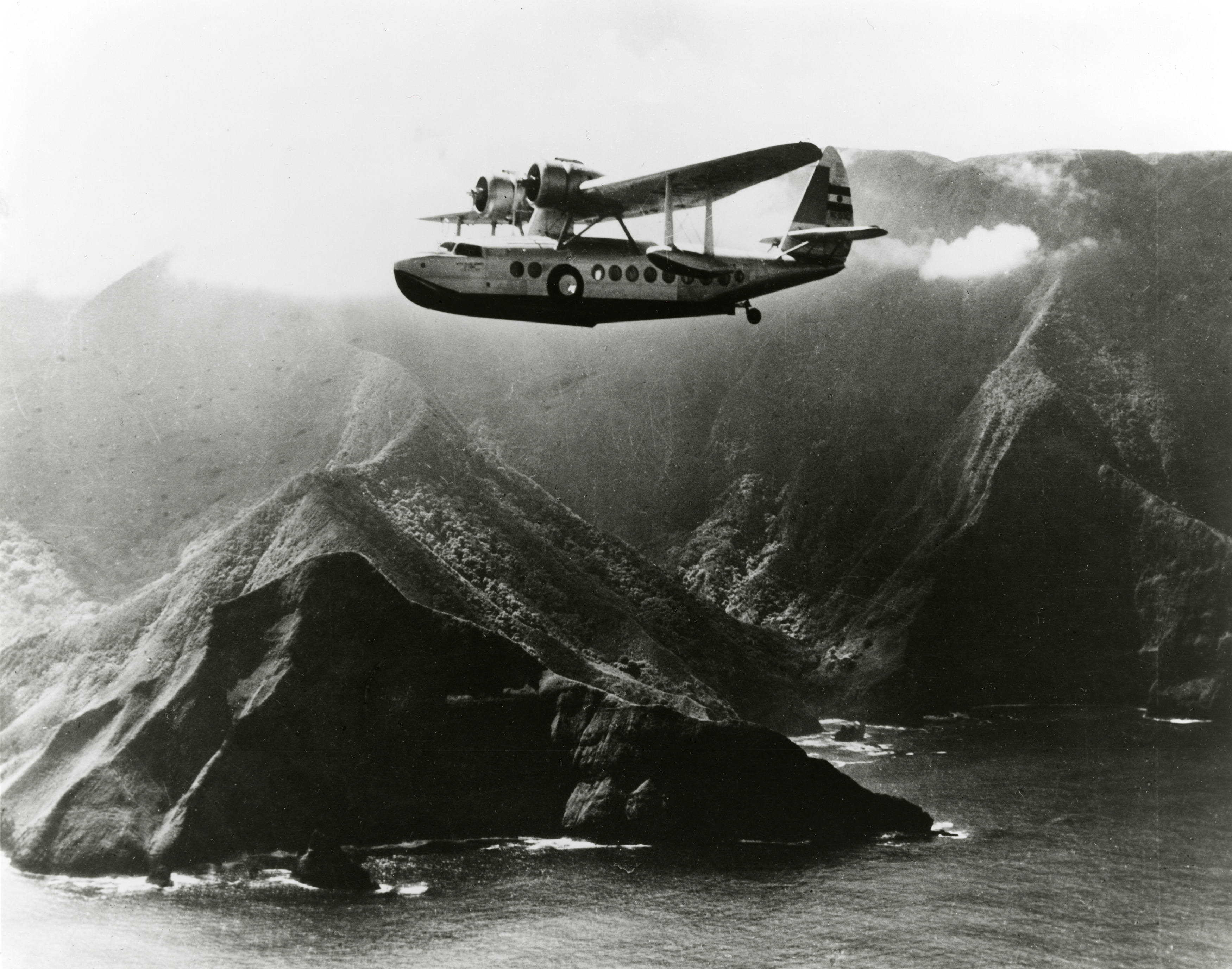 One-quarter front left side view of Inter-Island Airways Sikorsky S-43 in flight past an unidentified mountainous coastline somewhere in the Hawaiian Islands; circa 1935-1940.